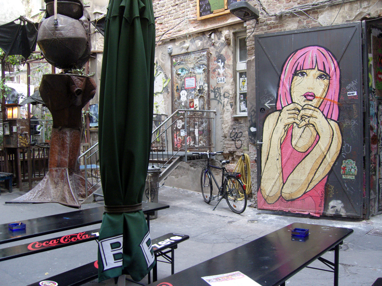 Paste-Up